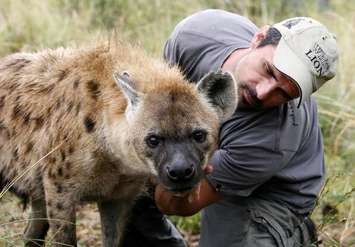 Kevin Richardson next to a hyena